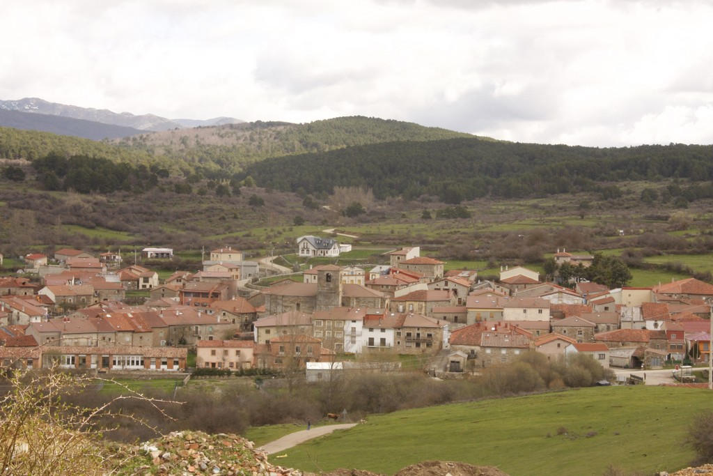 Huerta de Arriba view